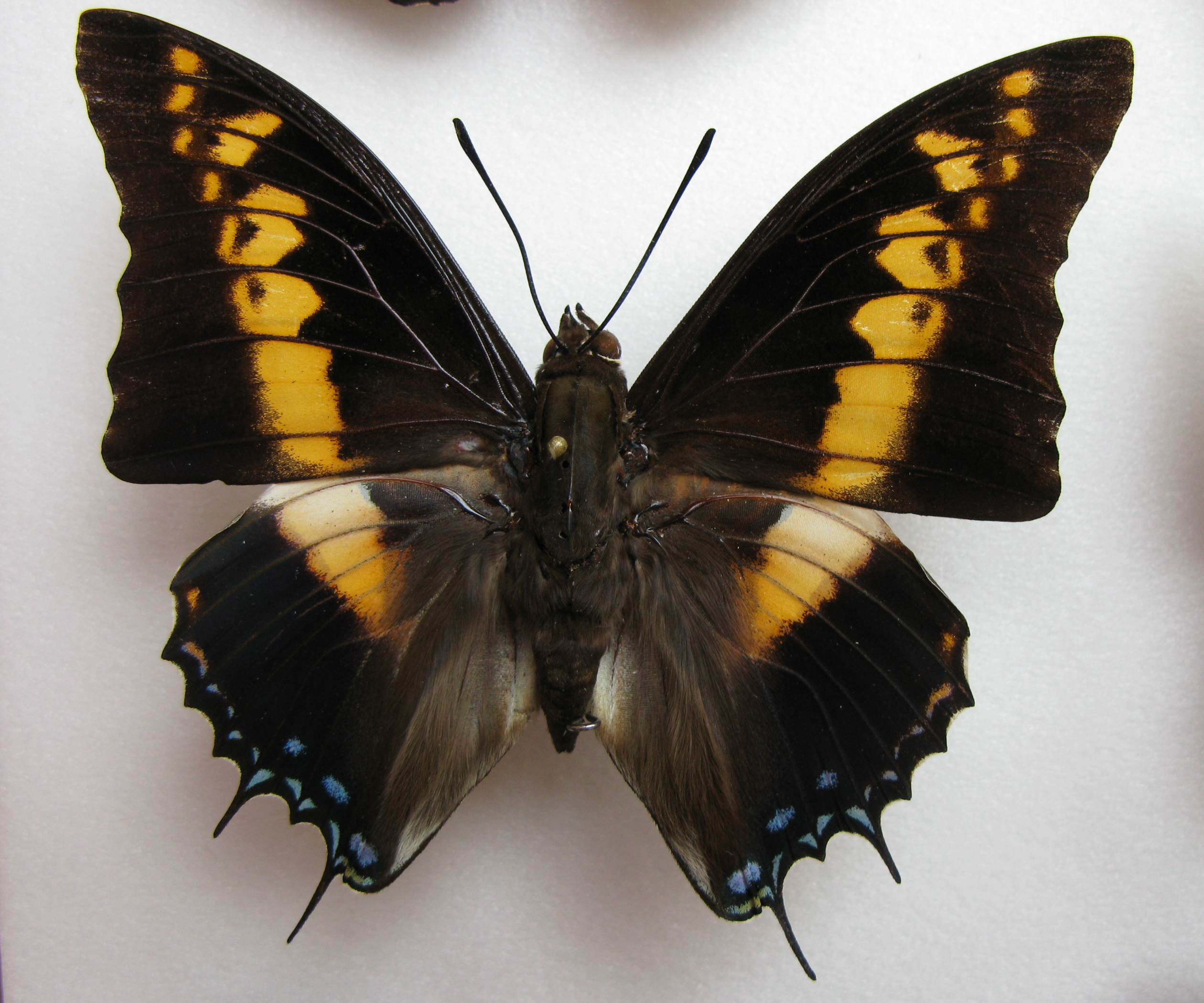 A male Giant emperor